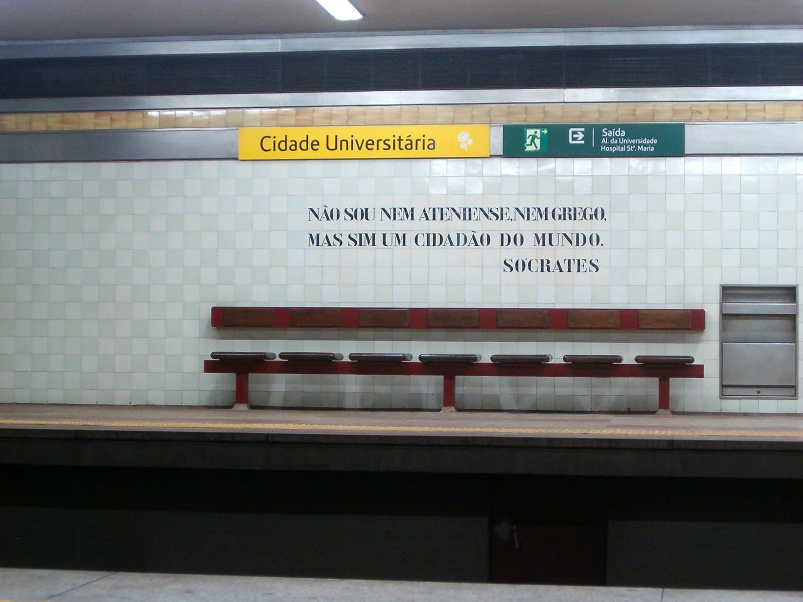 Metro station Cidade Universitária (Lisboa)